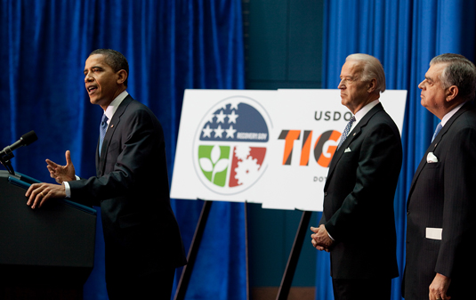 President Barack Obama addresses a crowd gathered at the Department of Transportation in Washington, D.C., to discuss infrastructure spending as part of the American Recovery and Investment Act, as Vice President Joe Biden and Transportation Secretary Ray LaHood listen.